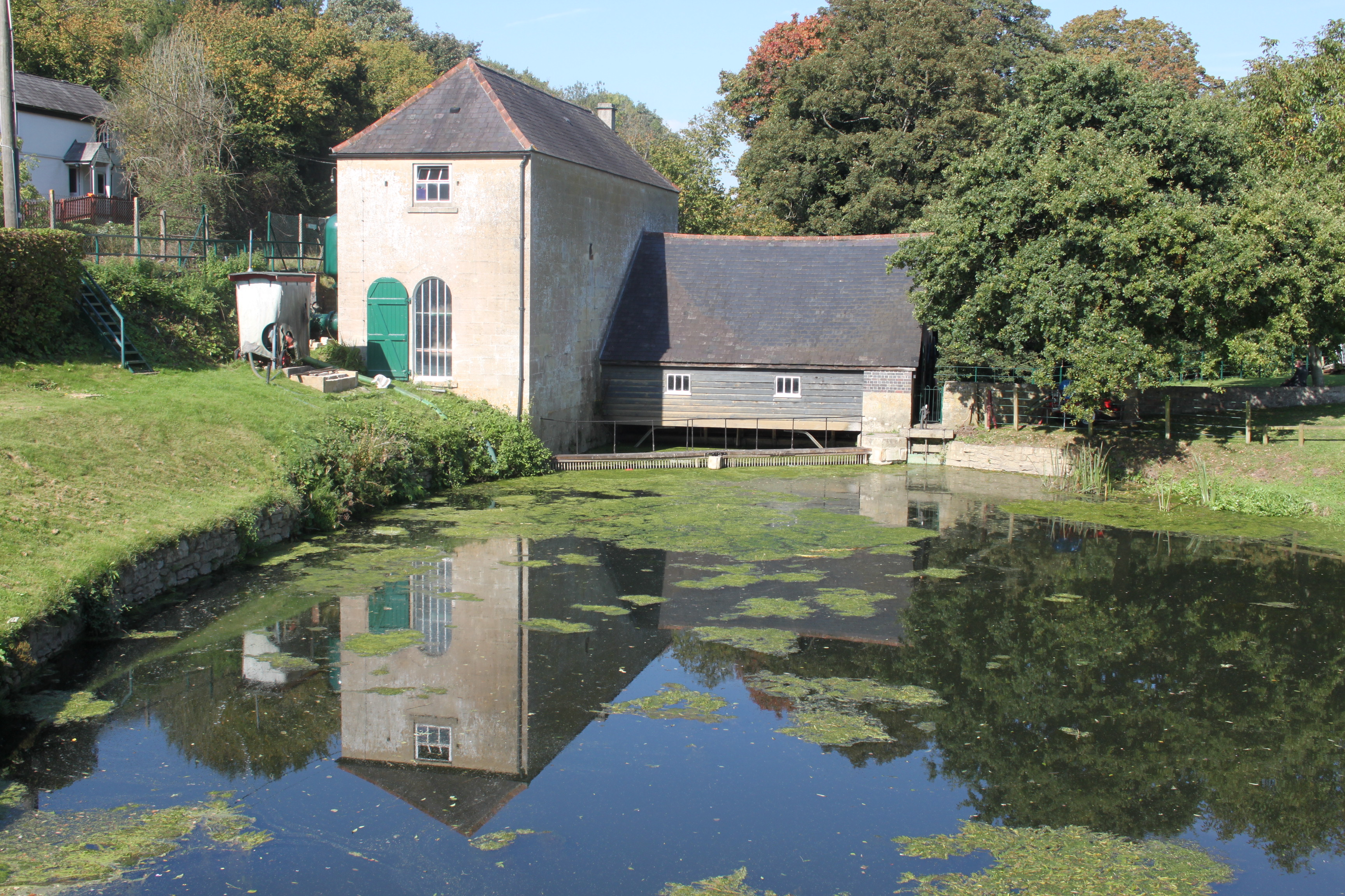 Claverton Pumping Station showing the pump and wheelhouses and the mill pond